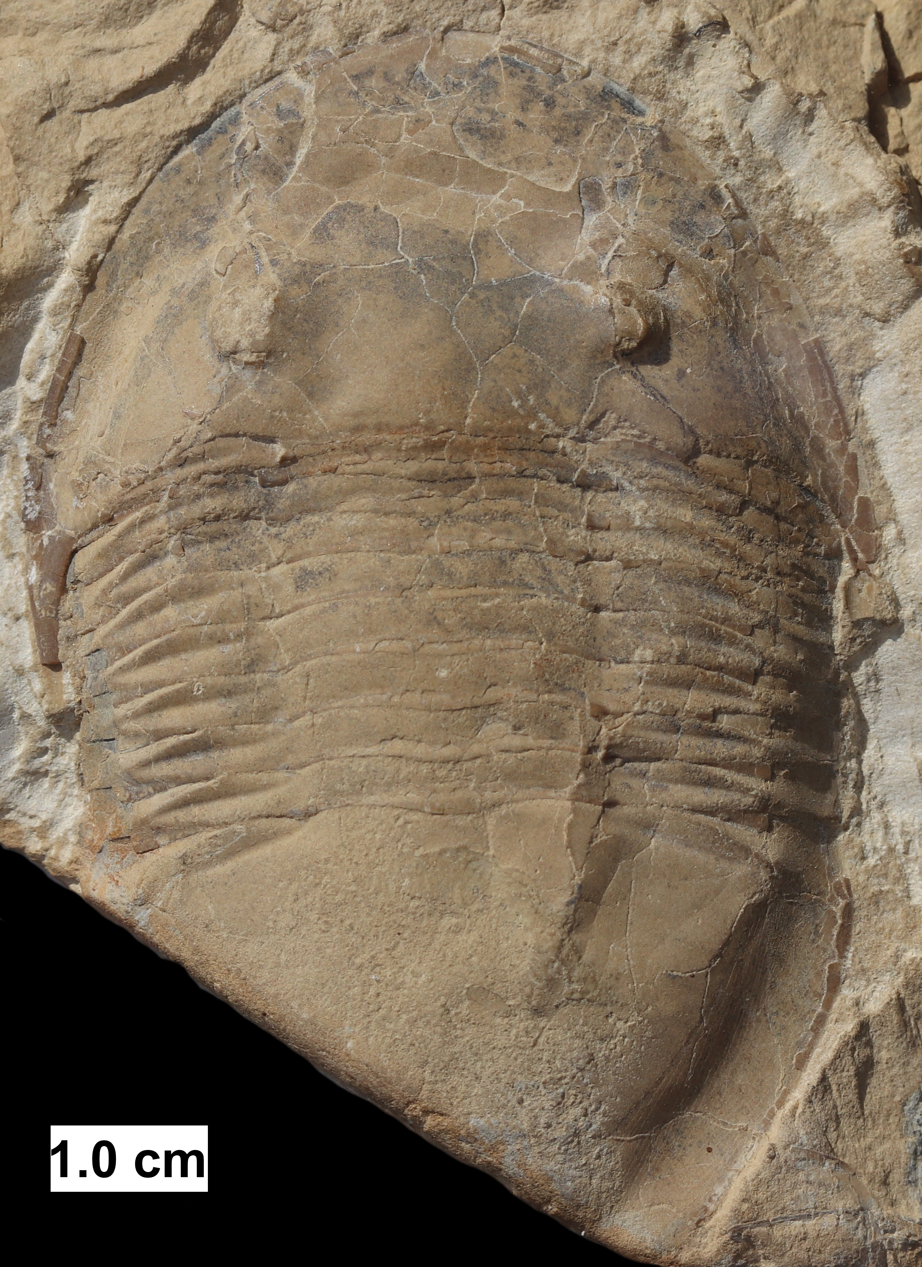 The Ordovician trilobite Isotelus, collected in Wisconsin; K.C. Gass collection; exact location, formation and collector unknown. Another photo of this fossil was figured on page 127 of Dott, R.H., and J.W. Attig. 2004. Roadside Geology of Wisconsin. Mountain Press Publishing Company, Missoula, MT.